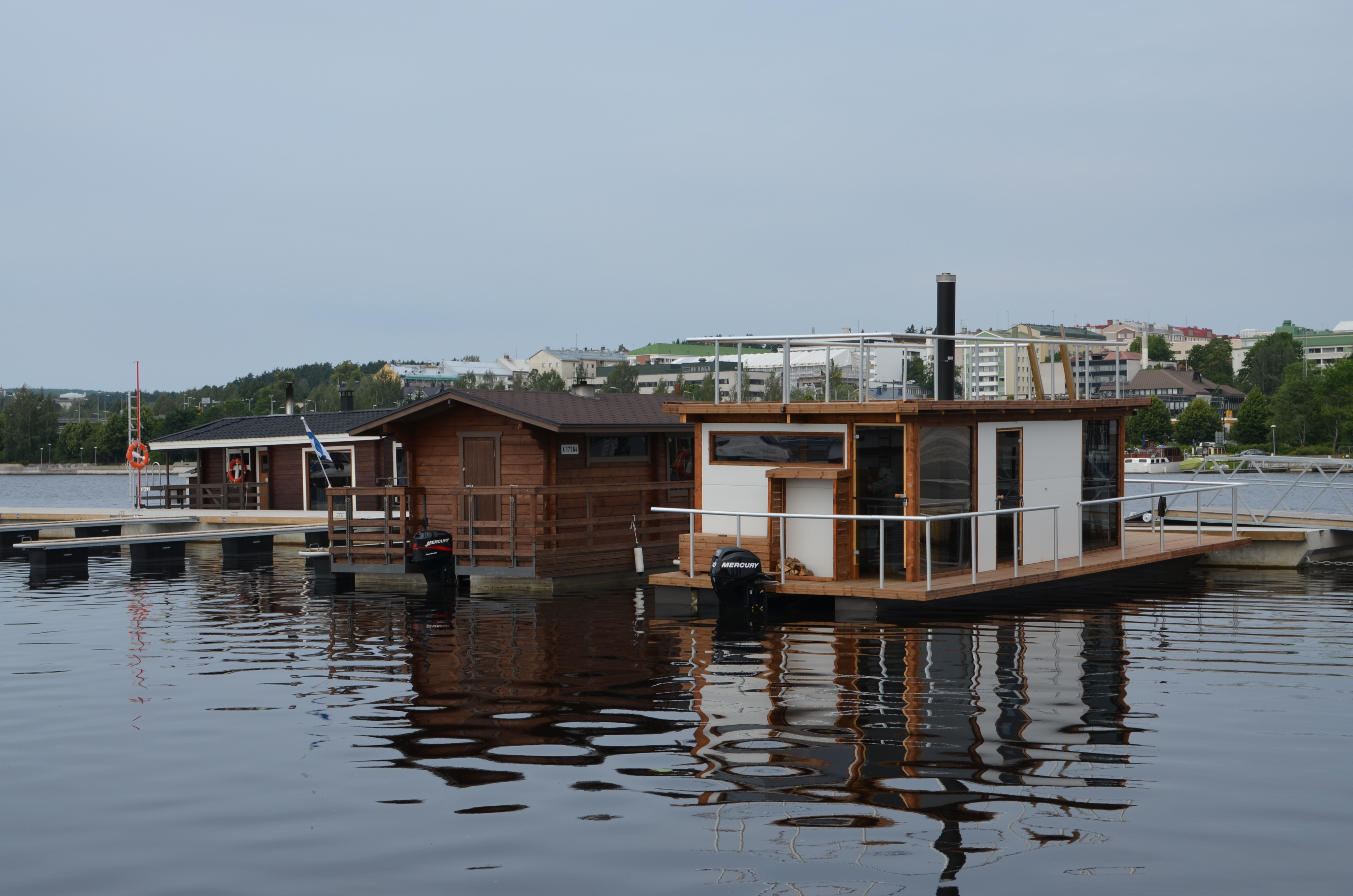 Saunaboats at Jyväskylä, Finland